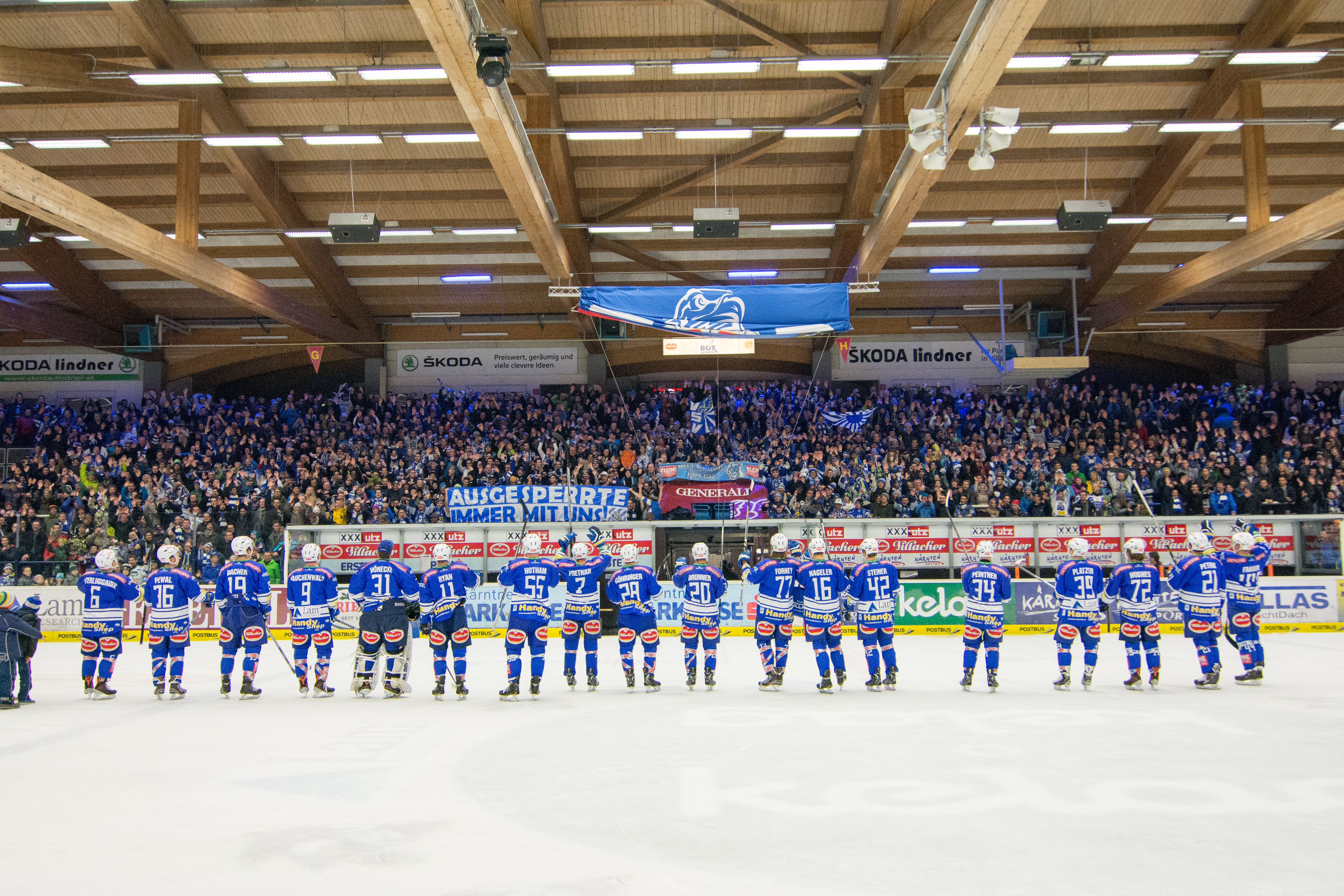 30.12.2013,Stadthalle Villach, AUT, EBEL, 61. Runde, EC VSV vs. Dornbirner EC, im Bild // frostworx Pictures © 2013, PhotoCredit: frostworx / Alex Micheu